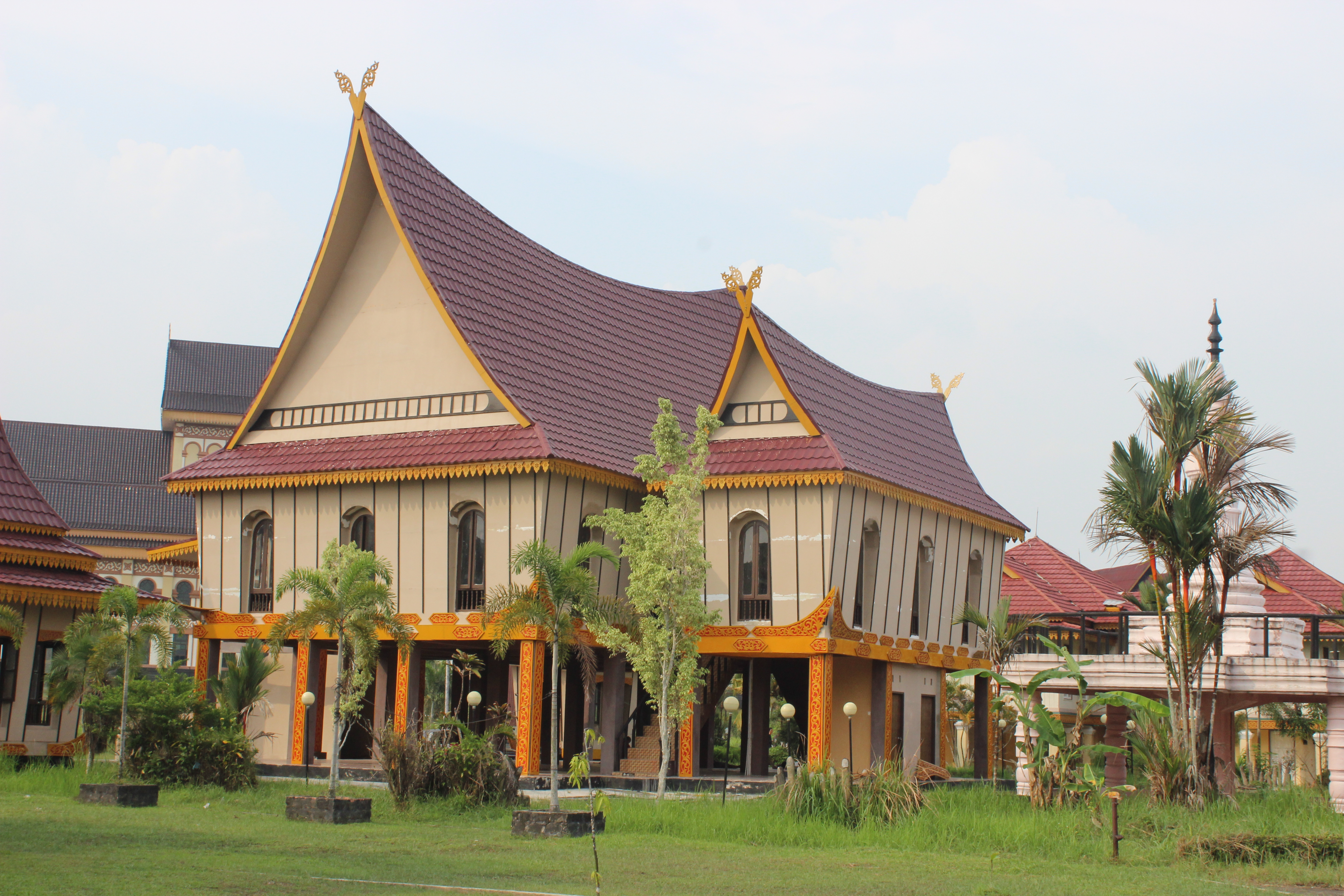 A Malay house designed with Melayu-Bangkinang style in MTQ Complex, Pekanbaru.